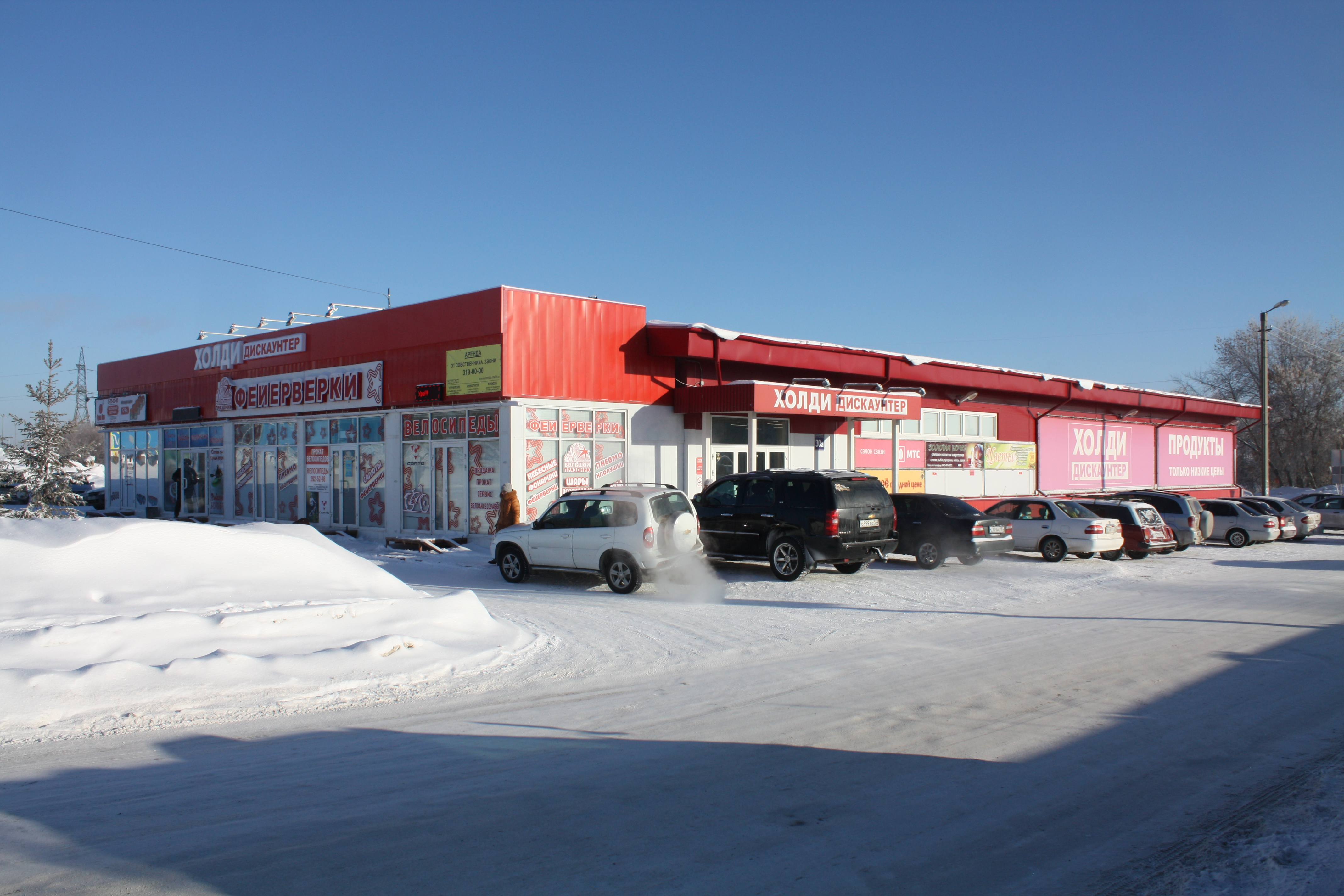 Holdy Discounter, Novosibirsk, Russia.